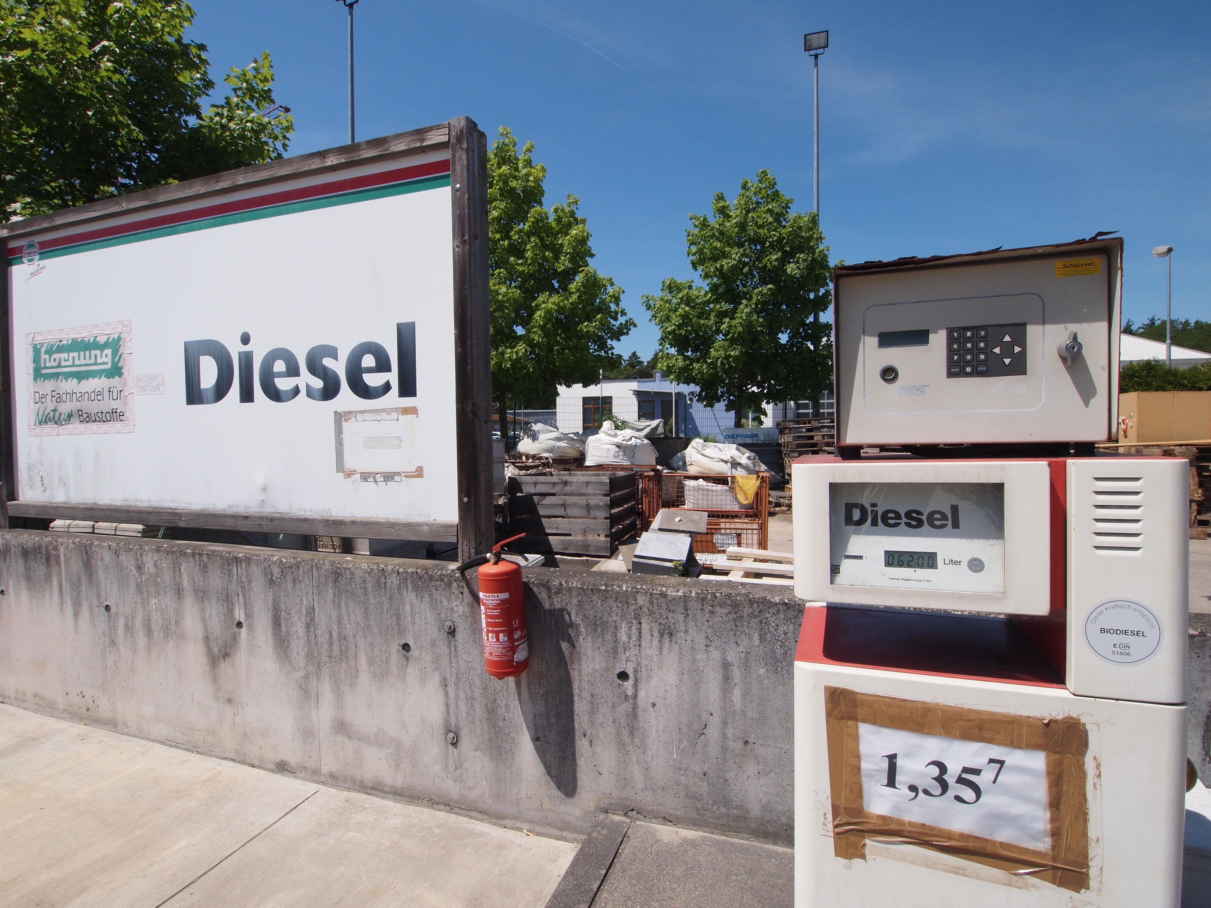 Biodiesel pump station